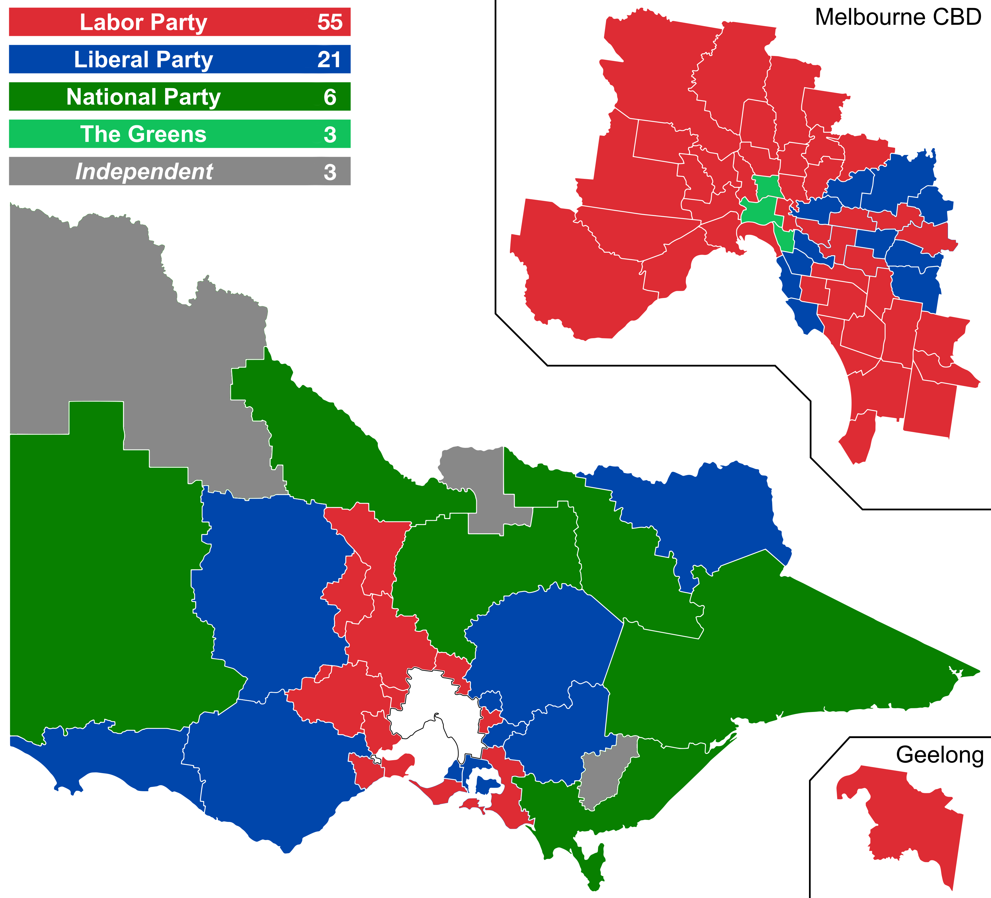 A map presenting the winners of each Victorian state electorate for the Victorian Legislative Assembly in the Victorian State Election, 2018.